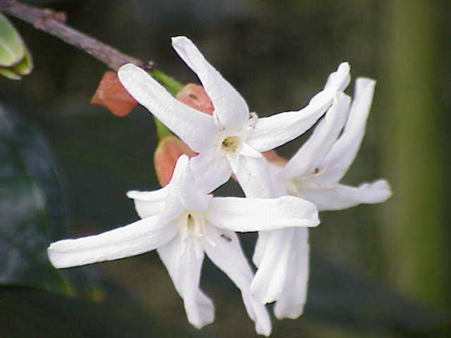 Species: Erythrochiton brasiliensis Family: Rutaceae Image No. 2